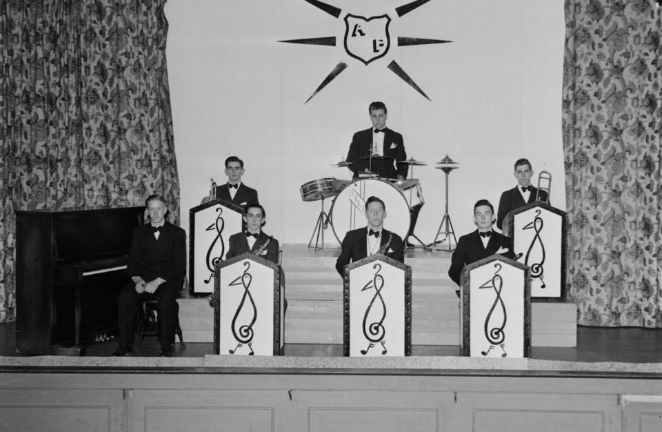 We see the dance band of the "Montreal West High School" located at 189 Easton Avenue in Montreal West.